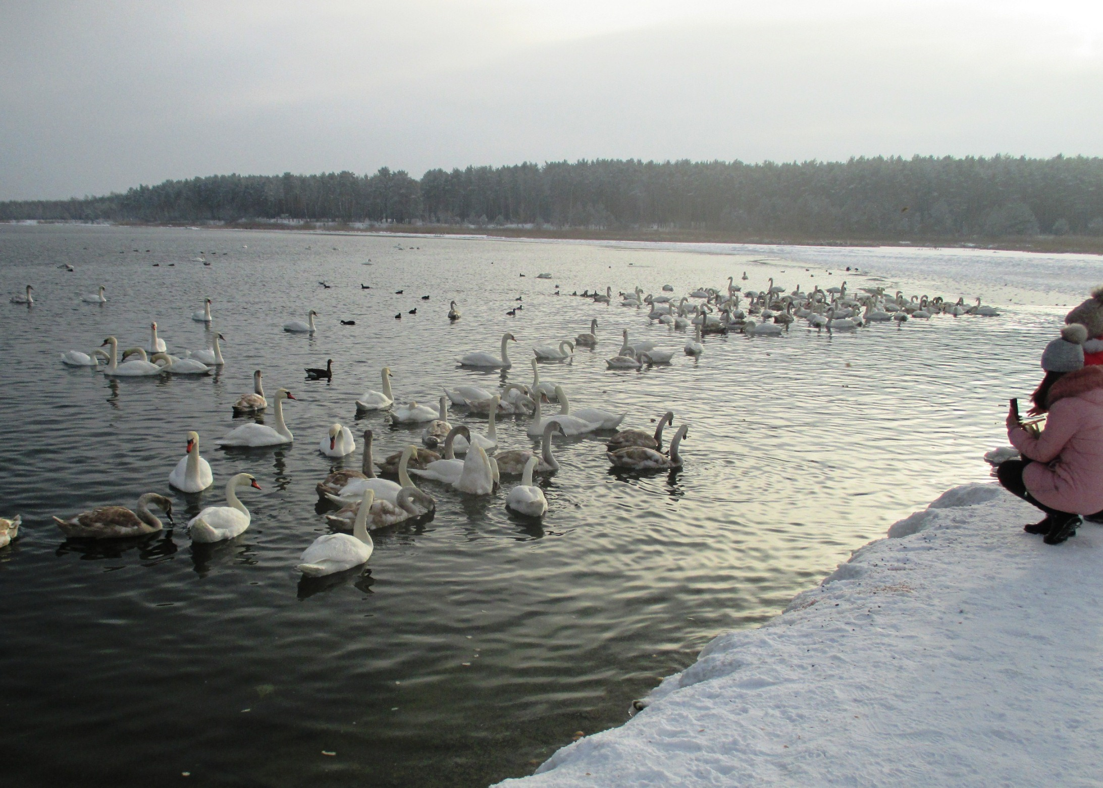 Reservoir Nuclear Power Plant